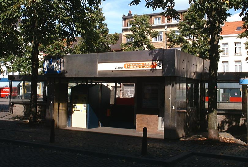 Entrance building of Sainte-Catherine / Sint-Katelijne station, Brussels metro. Demolished and replaced by a new structure in 2006-2007.